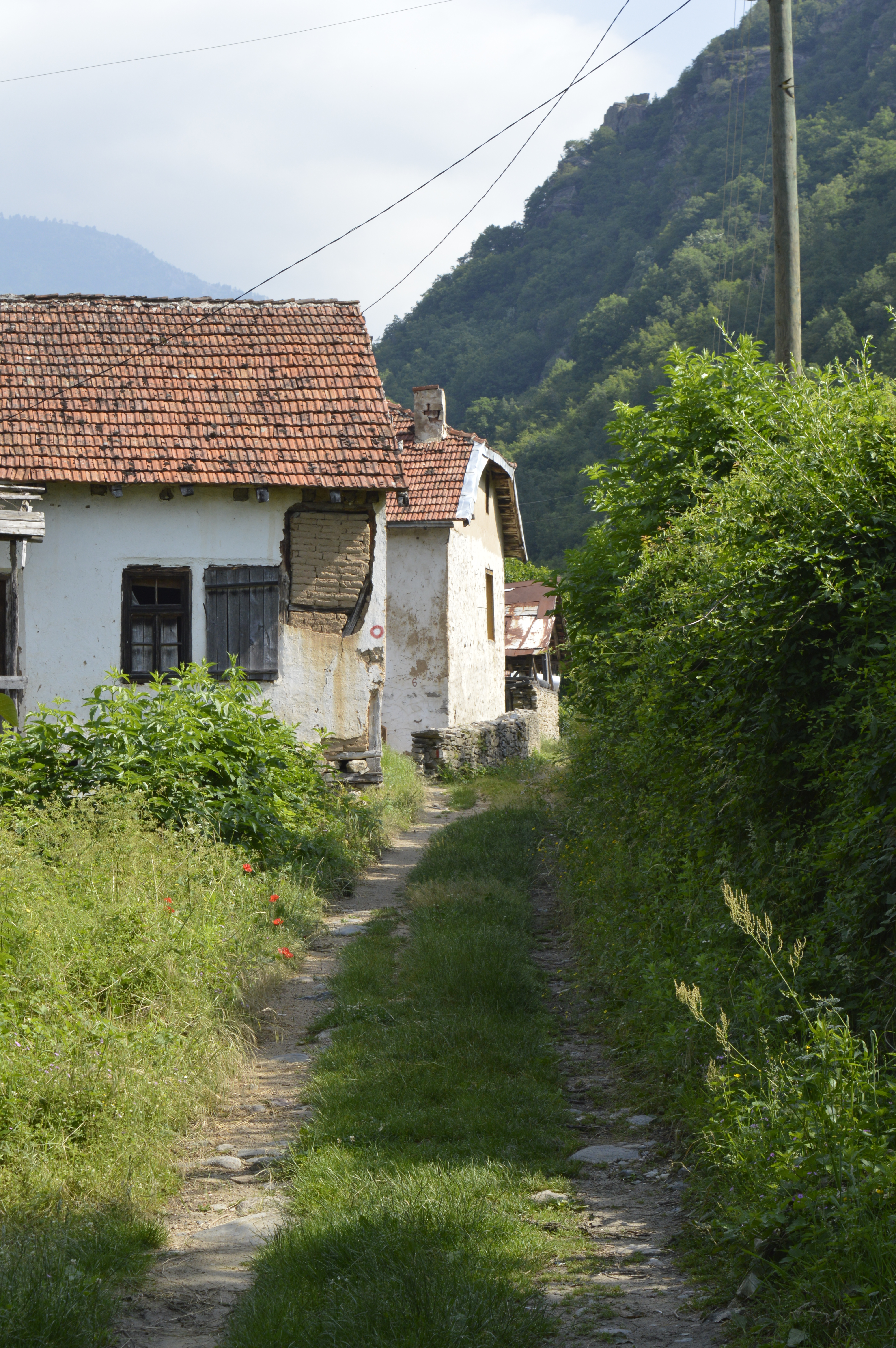 Street in the village Nežilovo